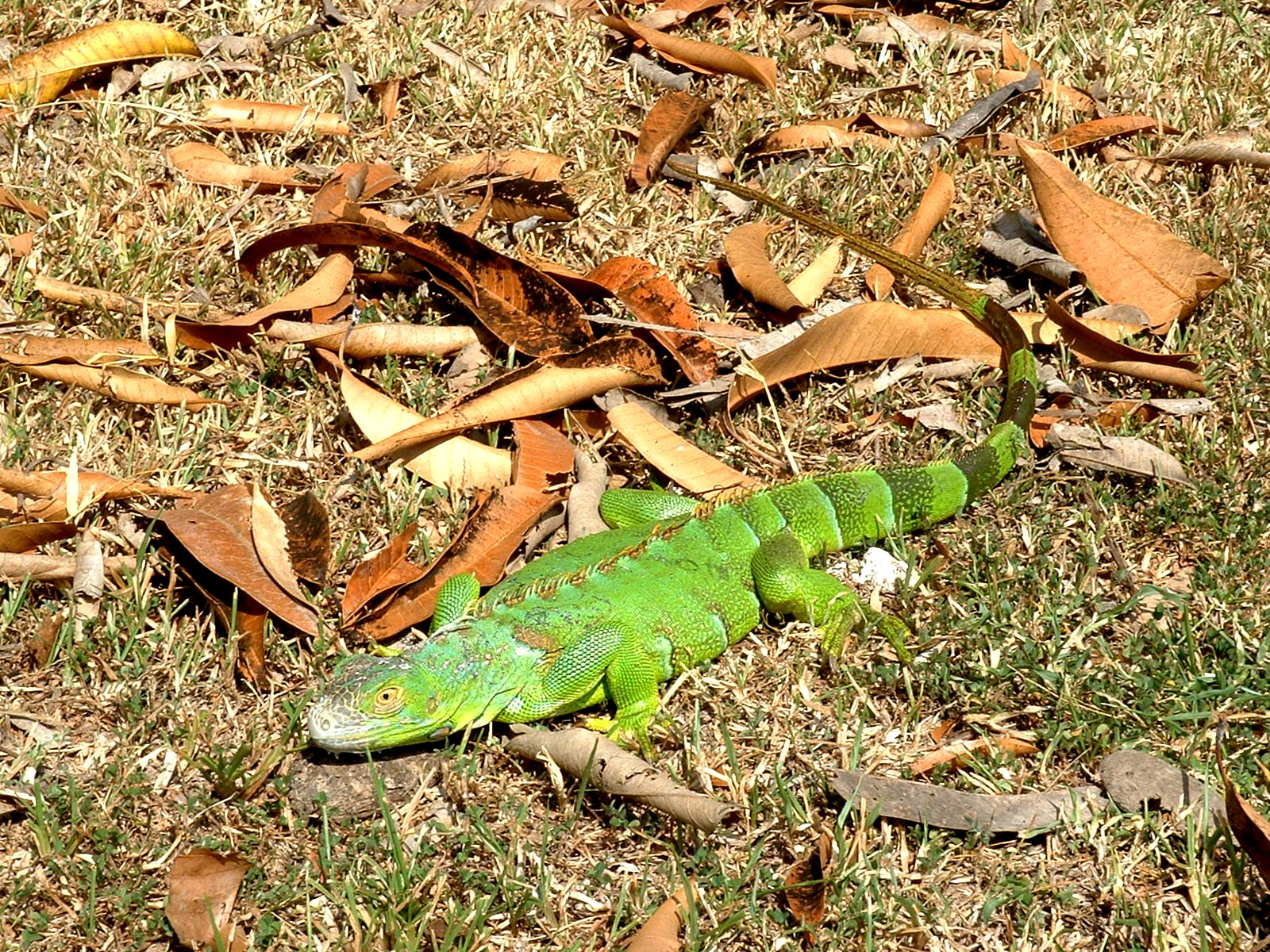 A green iguana (Iguana iguana) on Providencia Island, Columbia